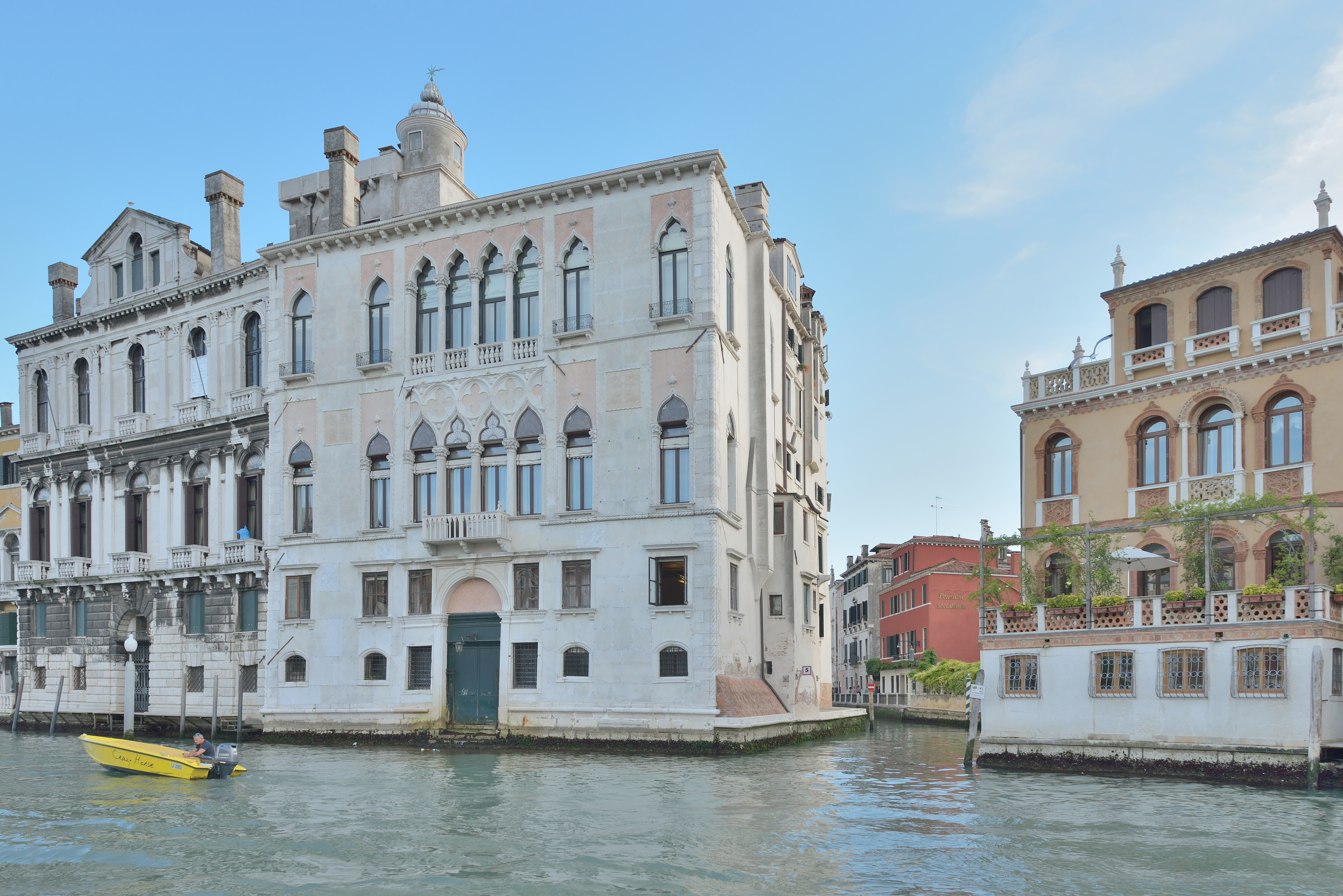 Palazzi Contarini degli Scrigni e Corfù, in Venice. Facade on Grand Canal.